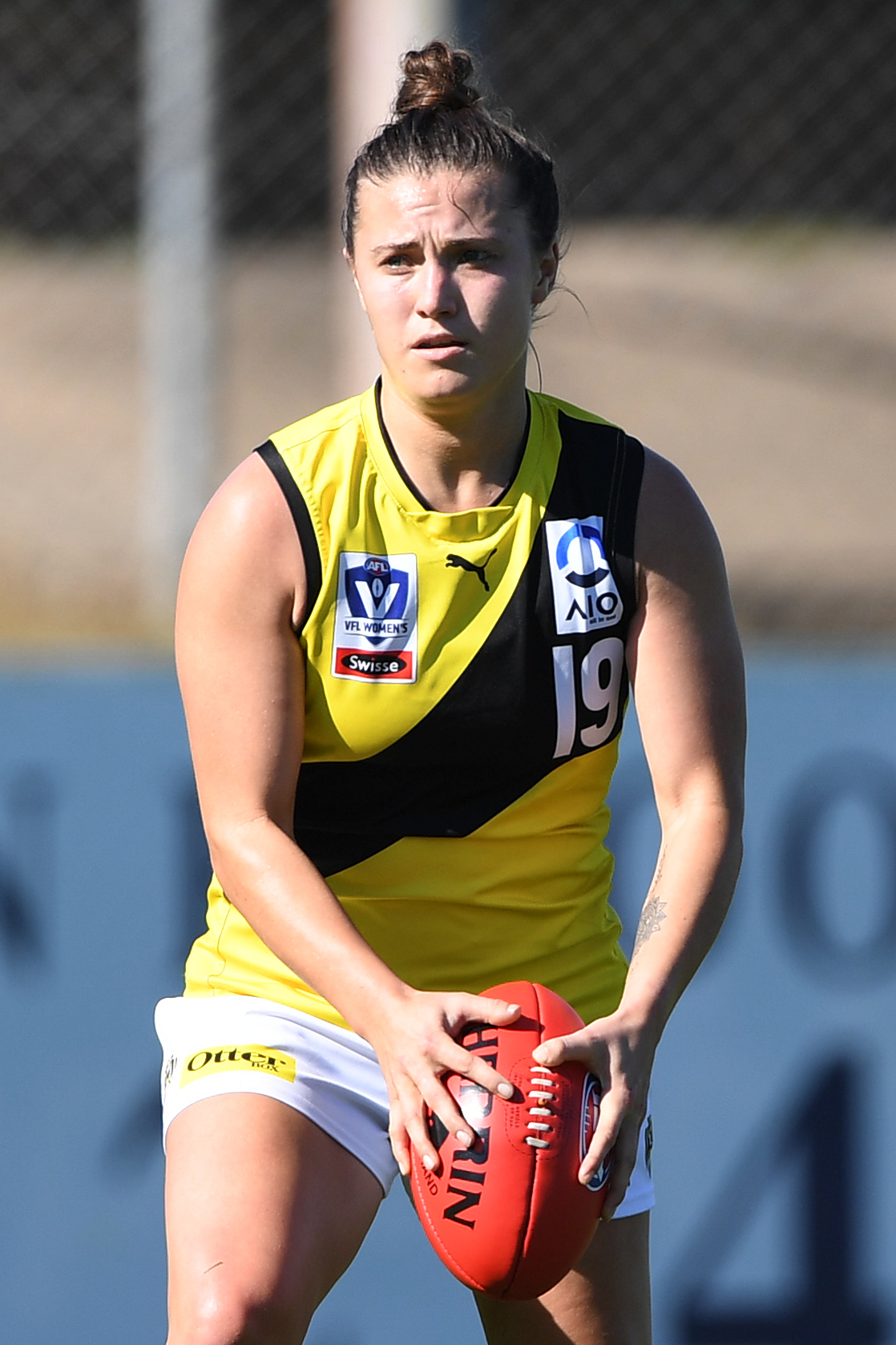 Kate Dempsey of Richmond during the 2019 VFLW Round 6 match between NT Thunder and Richmond at TIO Stadium on 15 June 2019 in Darwin, Australia.